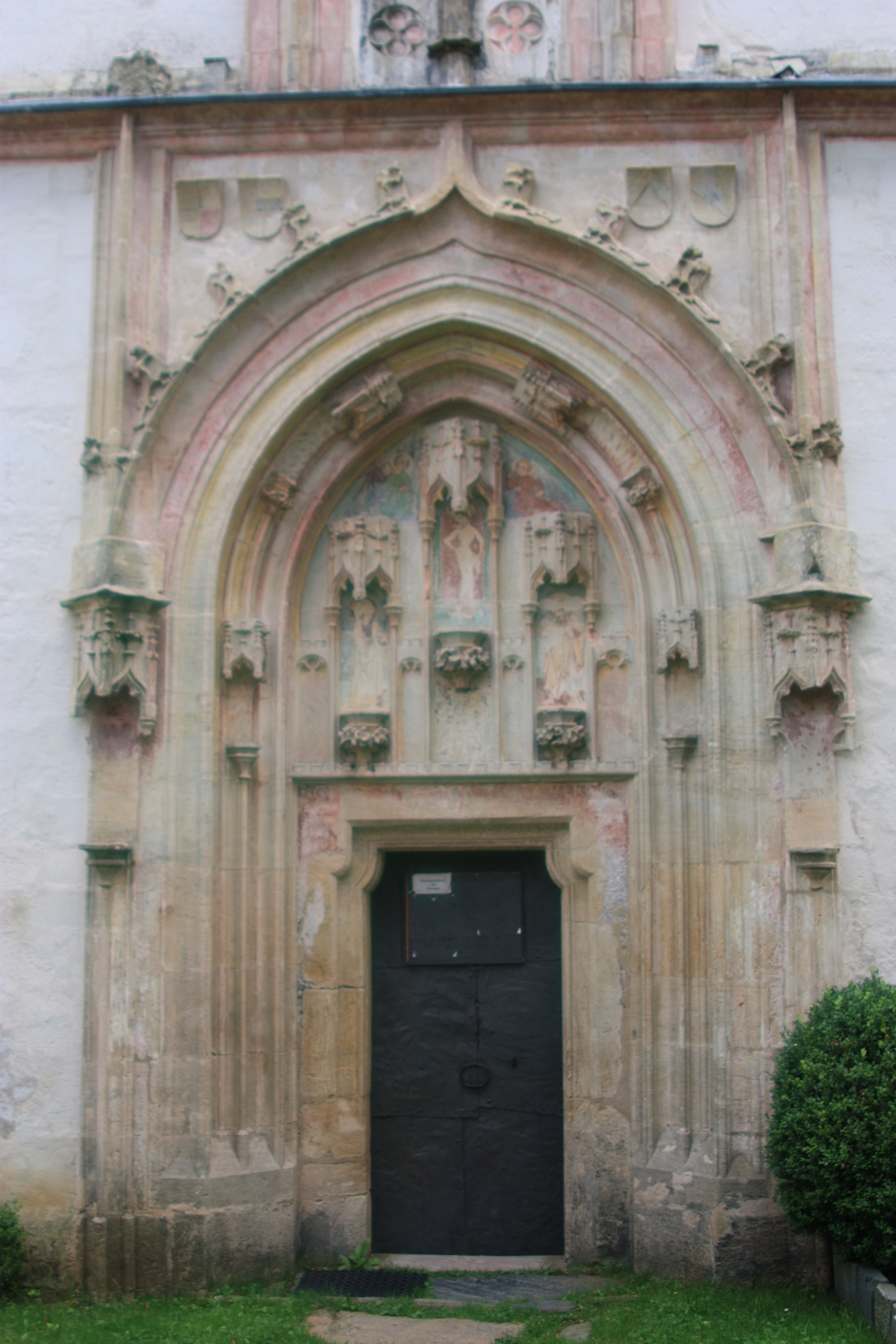 Portal of the church of Hochfeistritz Locality: Hochfeistritz Community:Eberstein